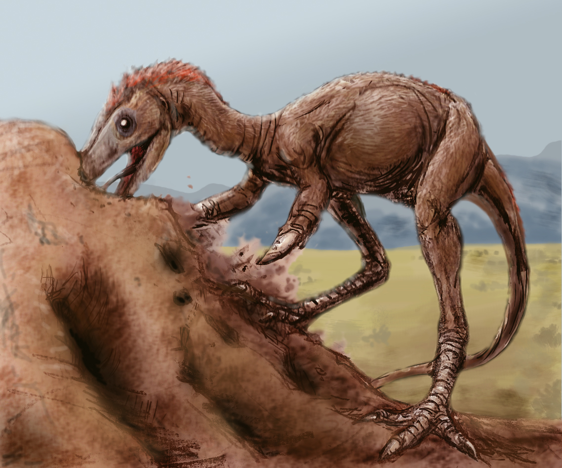 Kol ghuva feeding from a termite mound.